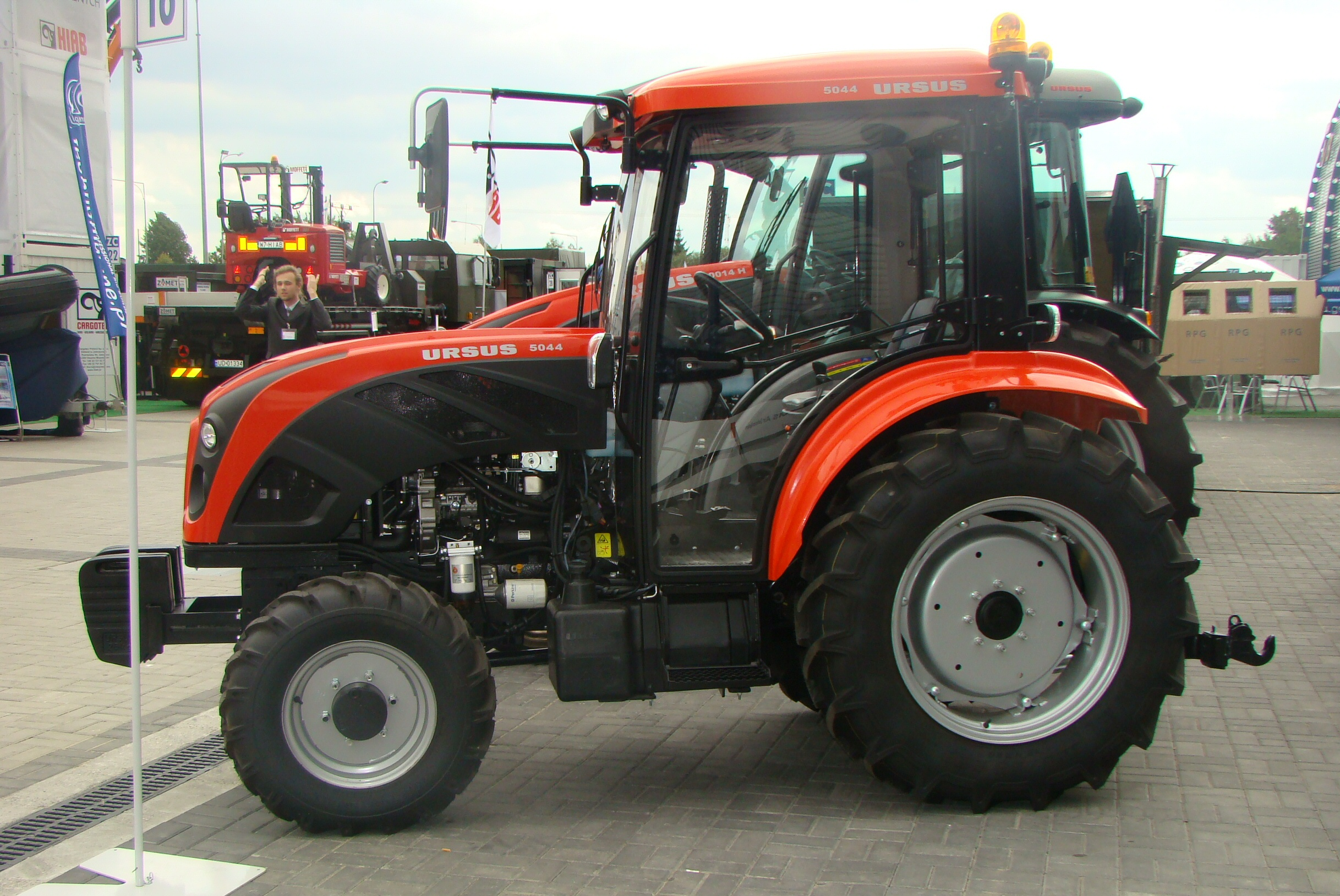 Ursus 5044 tractor in Kielce, Poland. MSPO 2013.